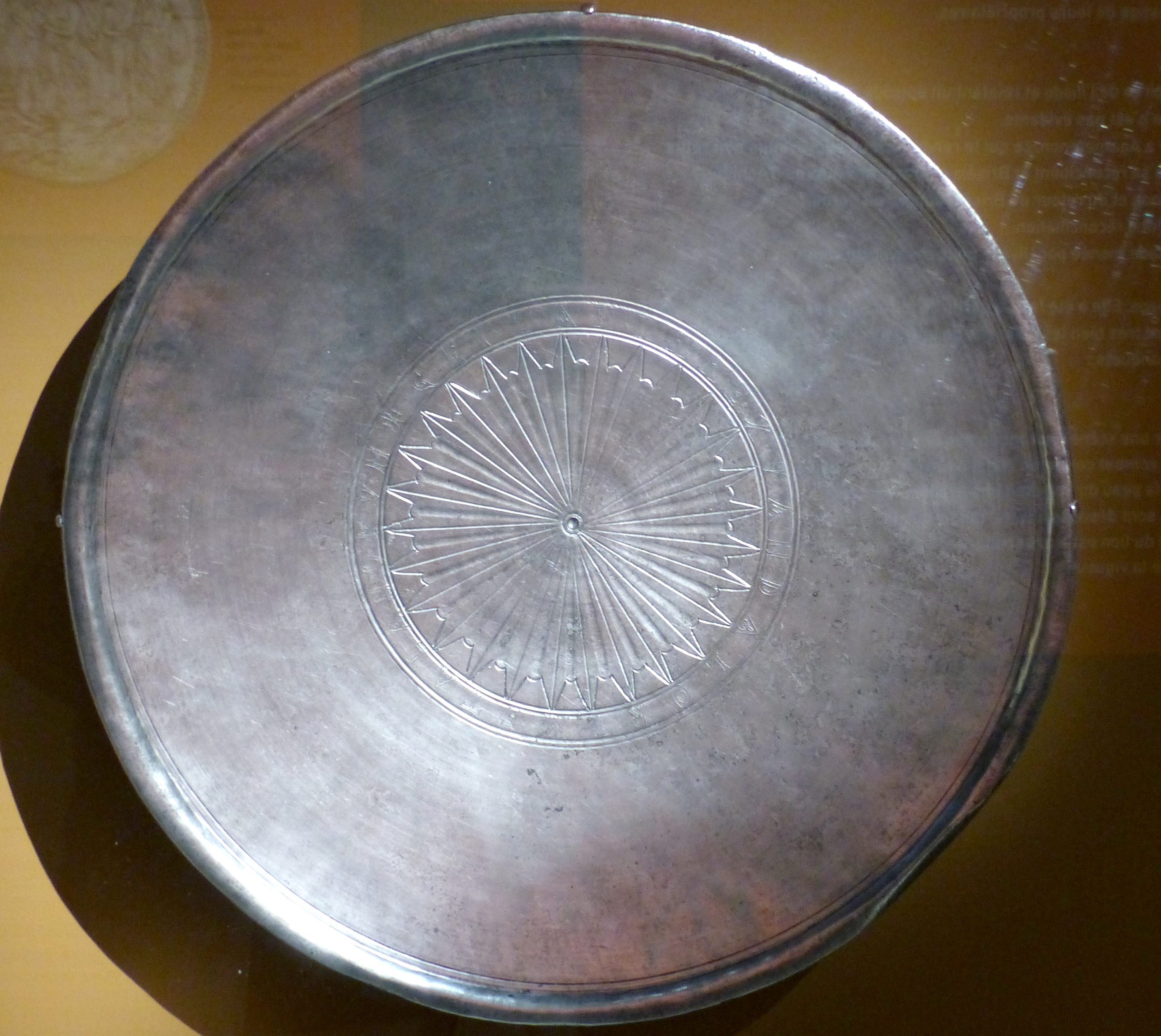 Simple decoration consisting of a geometric rosette lined with a band bearing the inscription: "Geilamir, king of the Vandals and Alans".